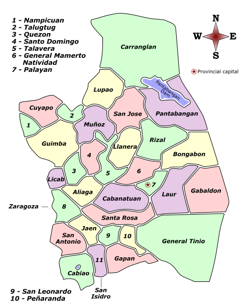 Labelled colored map of the province of Nueva Ecija, showing its component cities and municipalities.